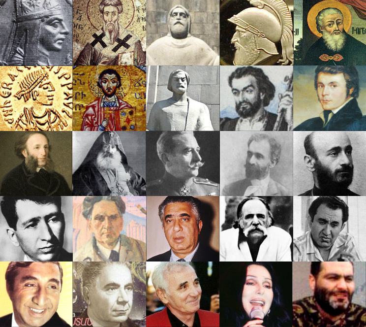 Armenians collage